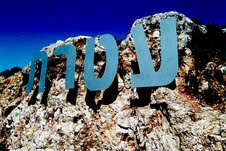 Letters composing the name Ateret at the settlement entrance